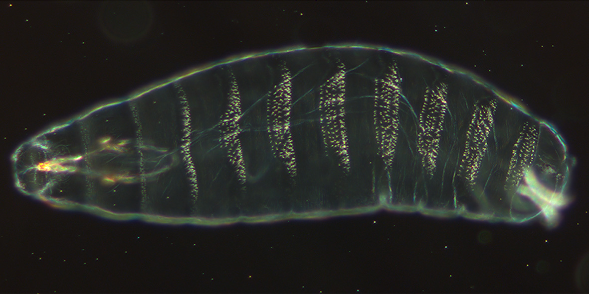 Kutikulapräparation eines Embryos von Drosophila melanogaster, etwa 22h alt. Ventrale Ansicht mit Dentikeln. Anterior (der Kopf) ist links. 200fache Vergrößerung. Selbst fotografiert Cuticle preparation of a Drosophila melanogaster embryo, about 22 hours old. Ventral view with denticles. Anterior (the head) is on the left side. 200x magnification. Own picture.